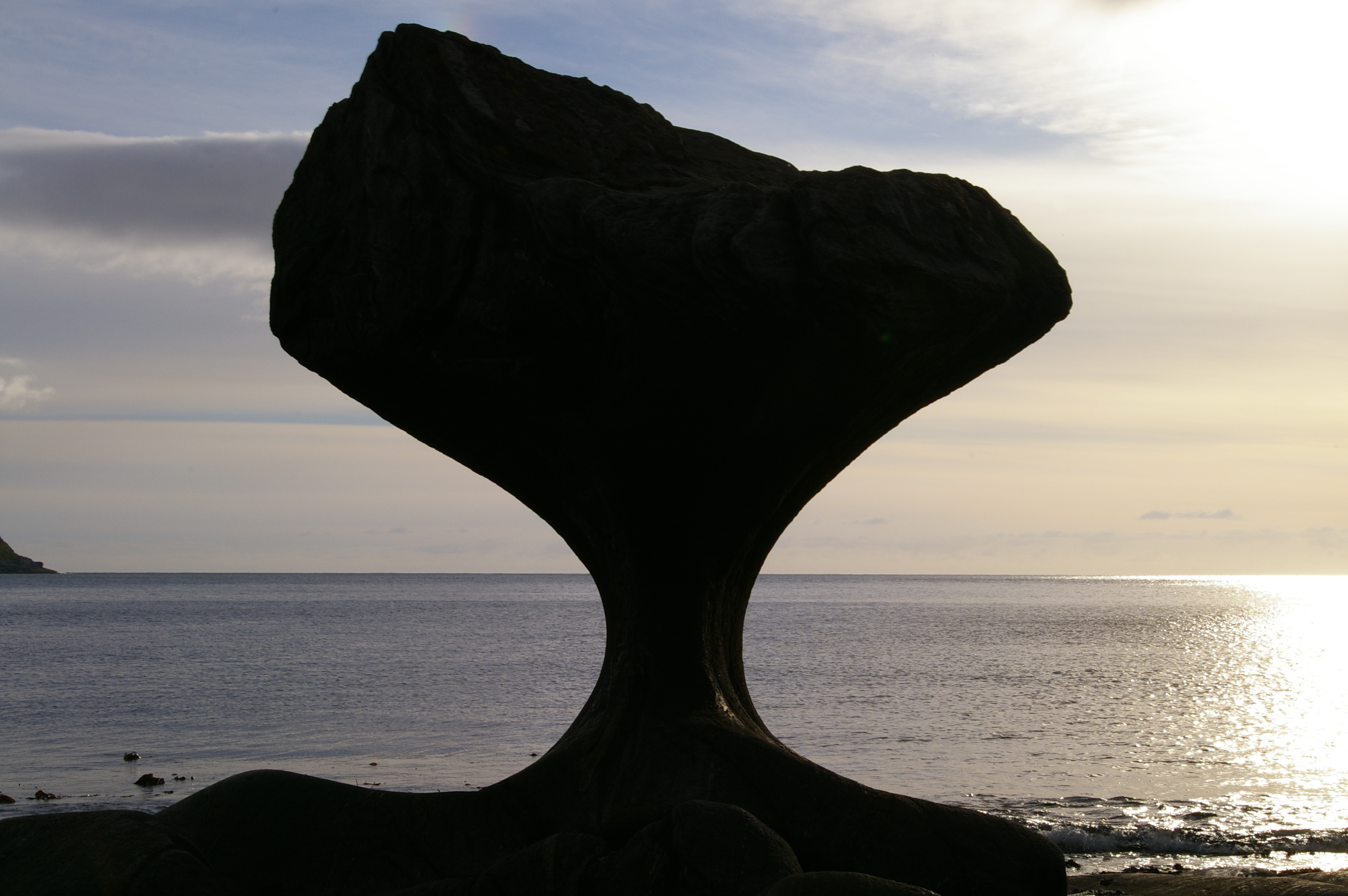 Kannesteinen, a mushroom rock at Vågsøy, Sogn og Fjordane, Norway